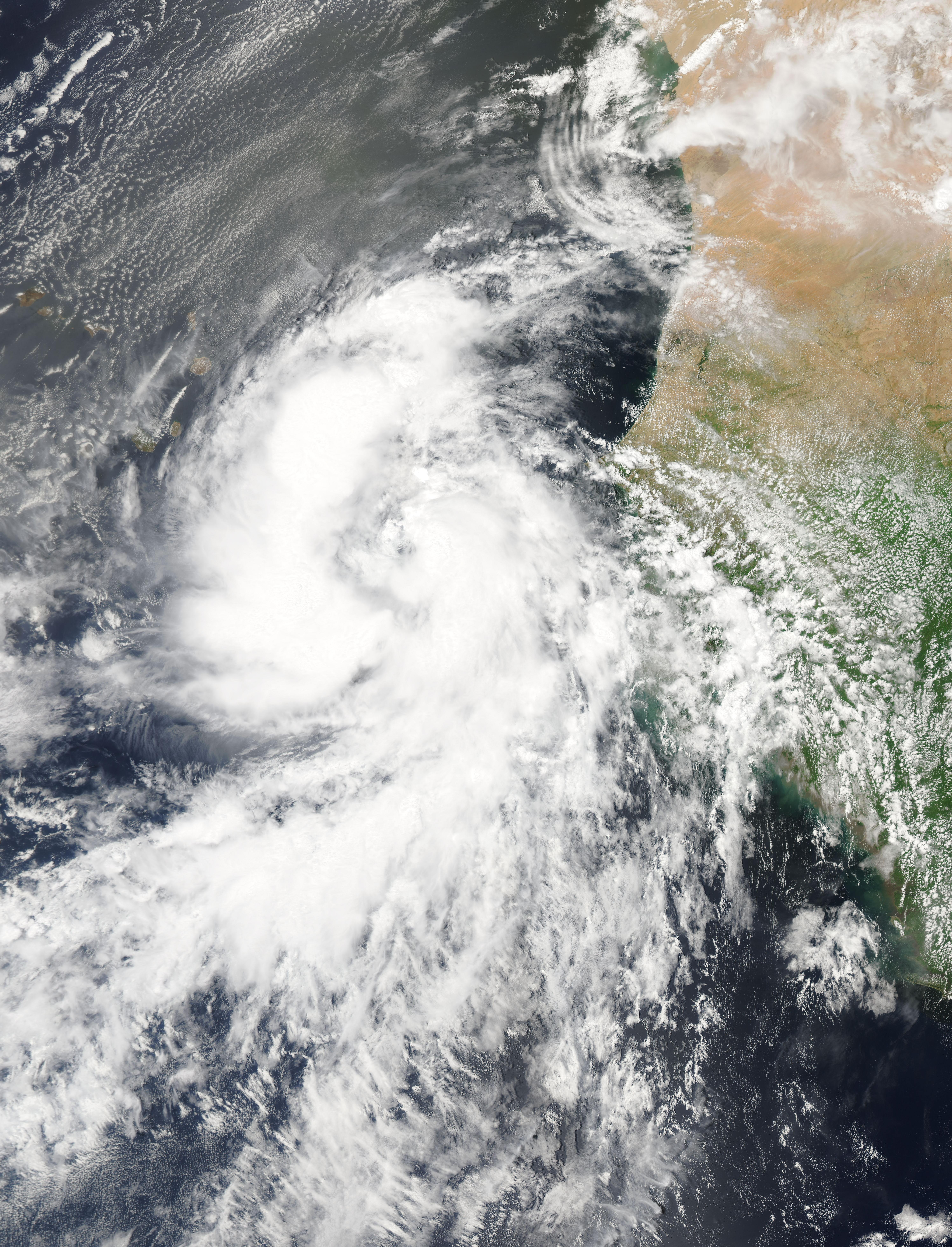 Aqua MODIS satellite imagery of Tropical Storm Fred at 1435z on August 30, 2015. At the time, Fred was packing maximum sustained winds of 50 mph. Fred has developed an eye at this point.